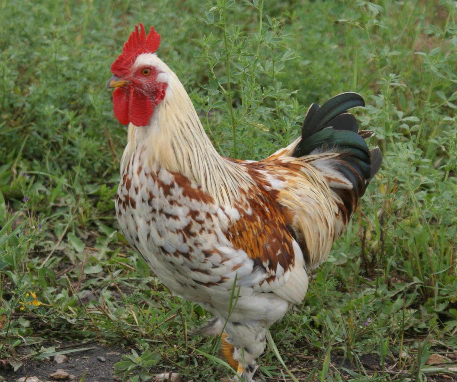 Chicken in Kotayk, Armenia